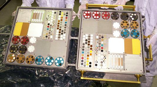 The Passive Optical Sample Assembly (POSA I) of the Mir Environmental Effects Payloads (MEEP) before its launch aboard Space Shuttle Atlantis during STS-76.